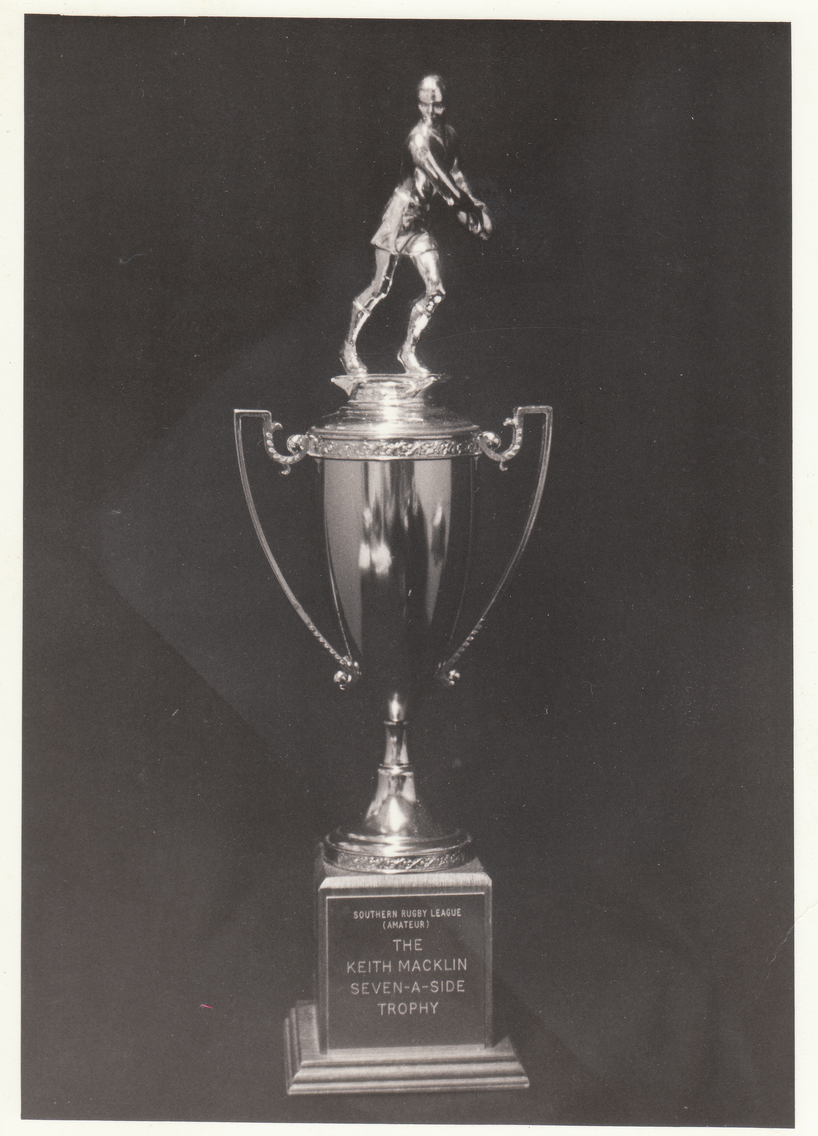 Keith Macklin Seven-A-side Trophy